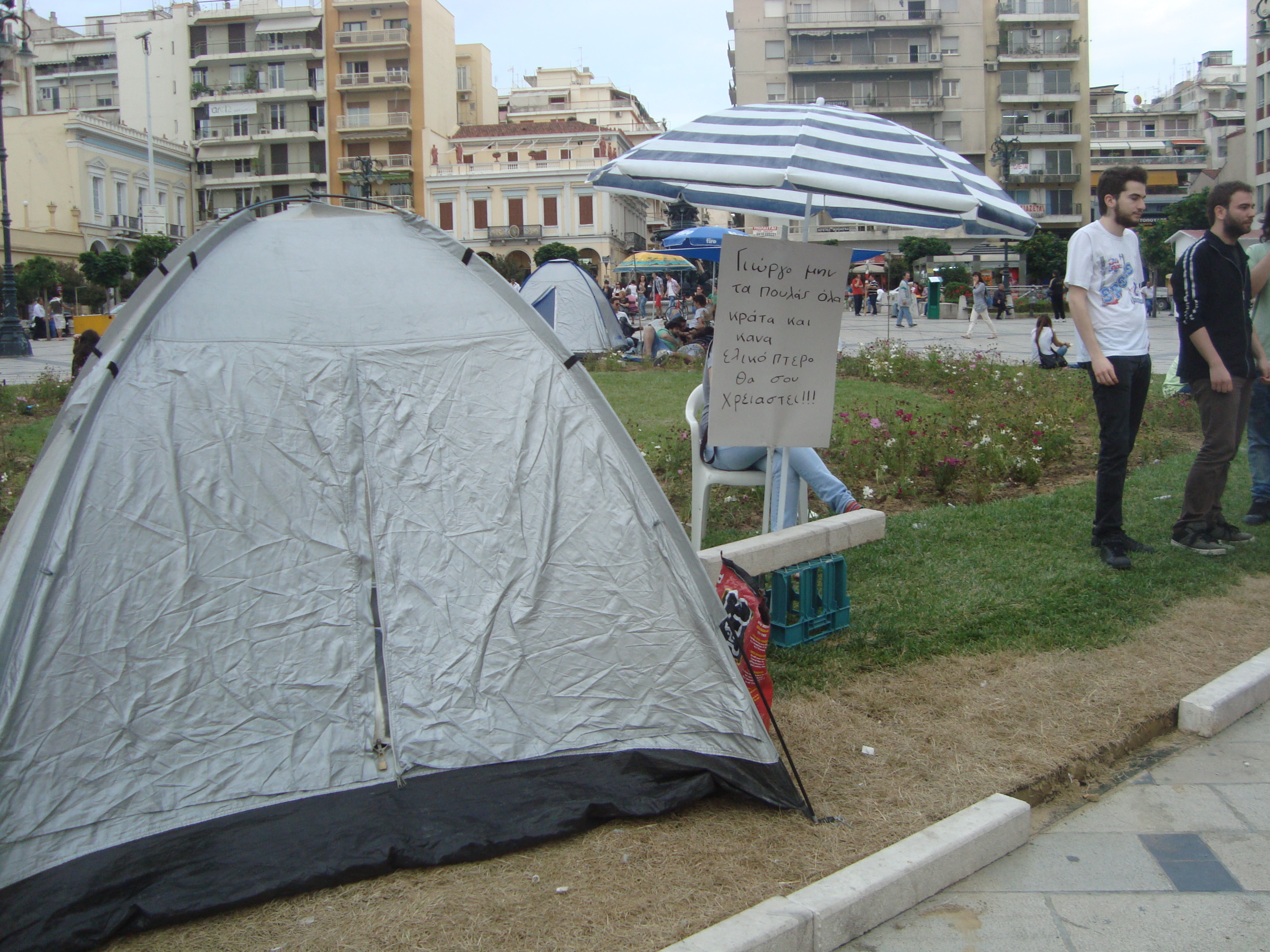 Indignados,Patras 2011